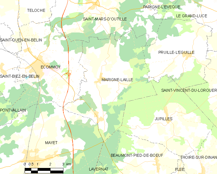 Map of French municipality